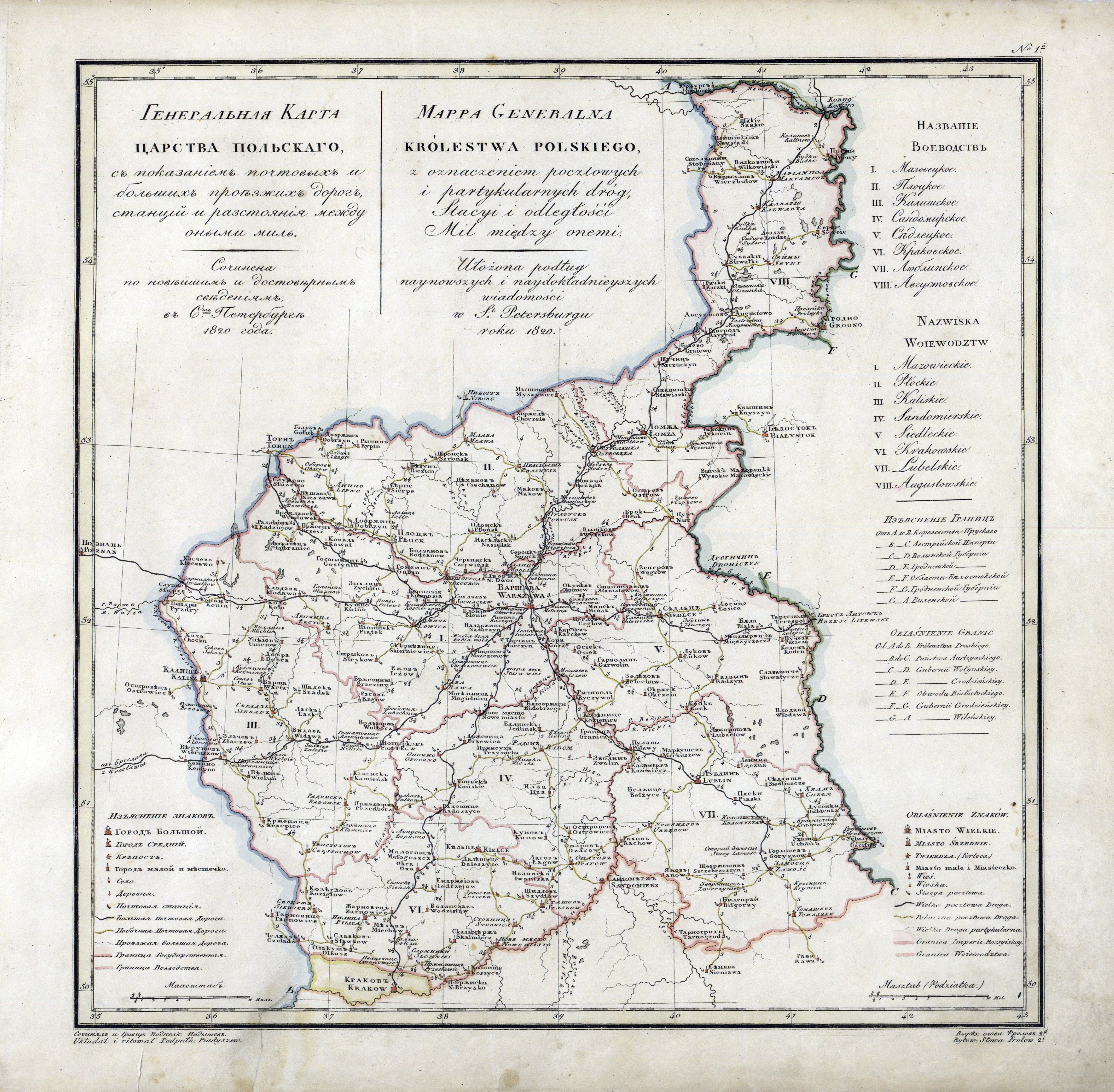 Congress Poland